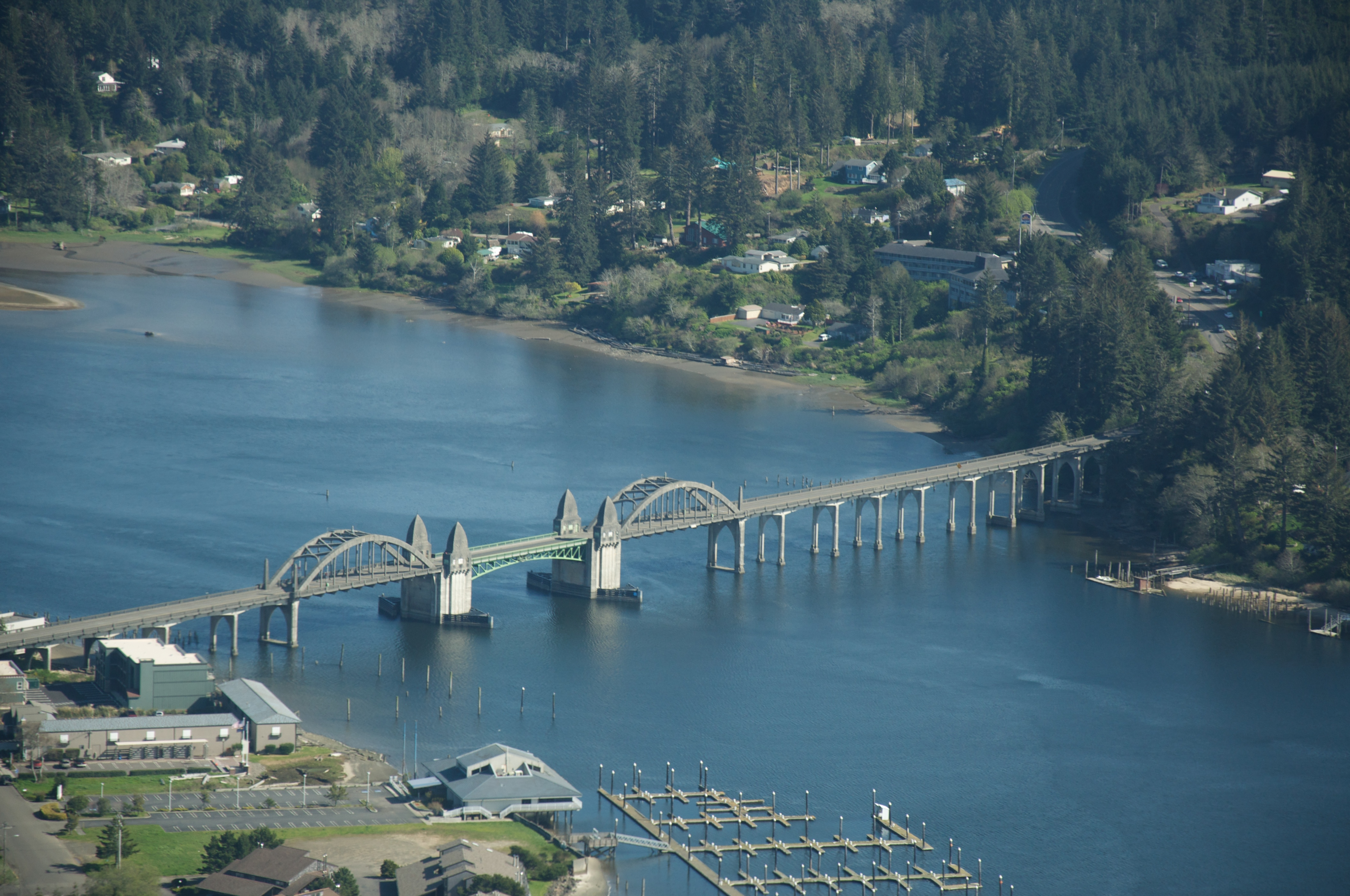 Bridge crossing the Siuslaw River in Florence, Oregon, USA